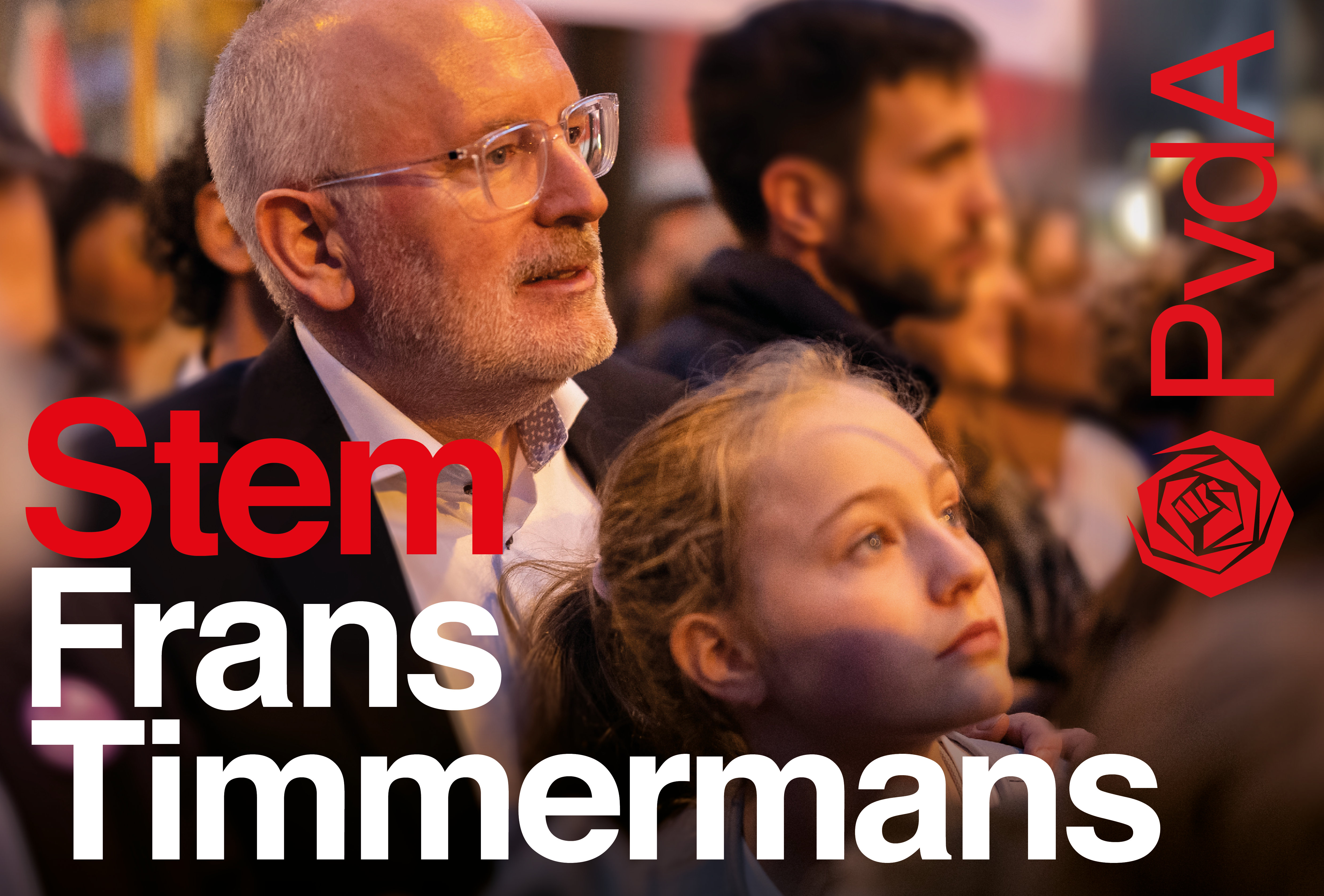 Posters Frans NS Spread